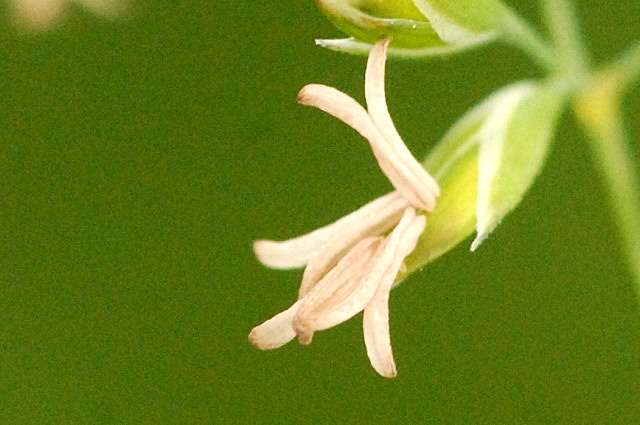 Poa nemoralis from Commanster, Belgian High Ardennes .